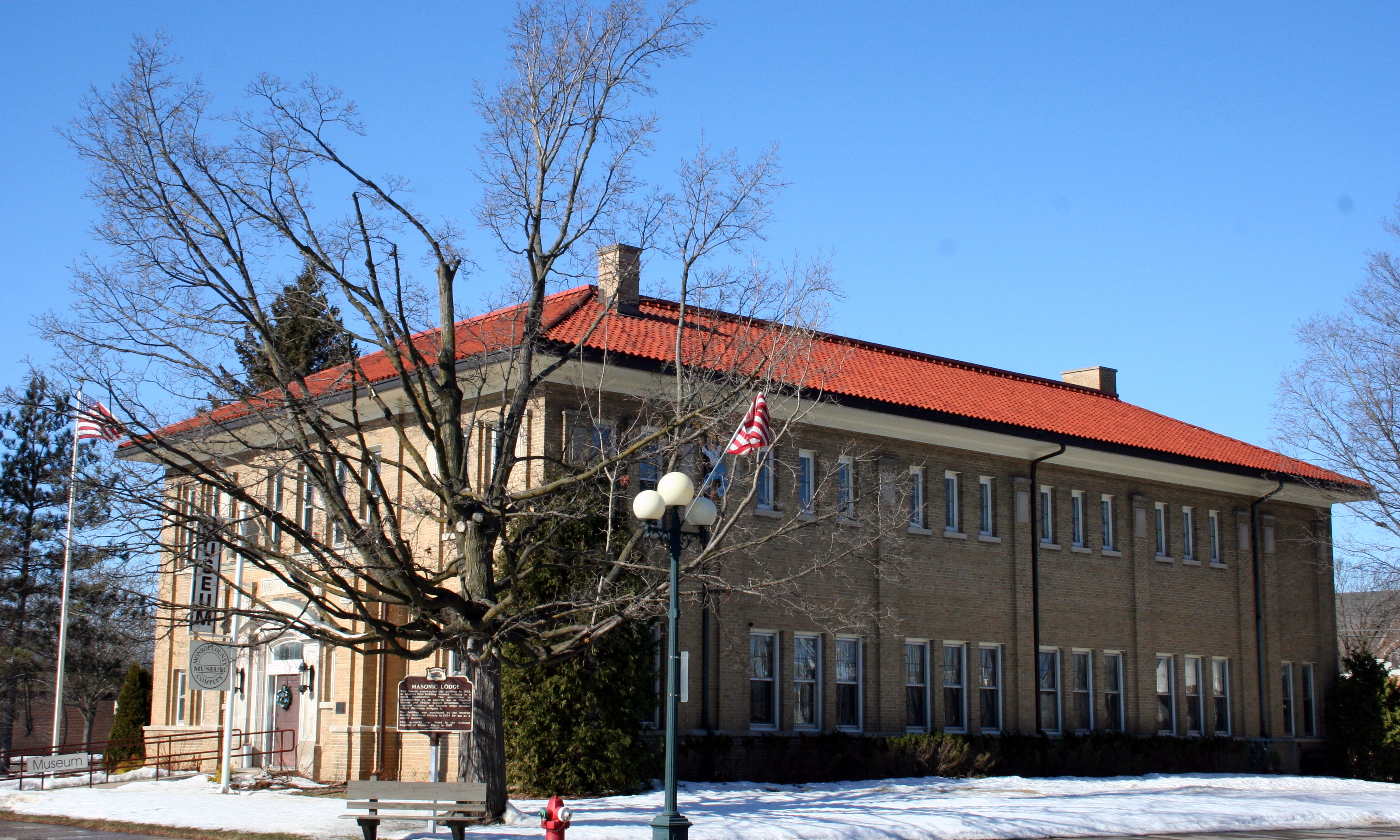 Monroe County Museum (historic Masonic Temple) at the intersection of Court and Main Streets in Sparta, Wisconsin.